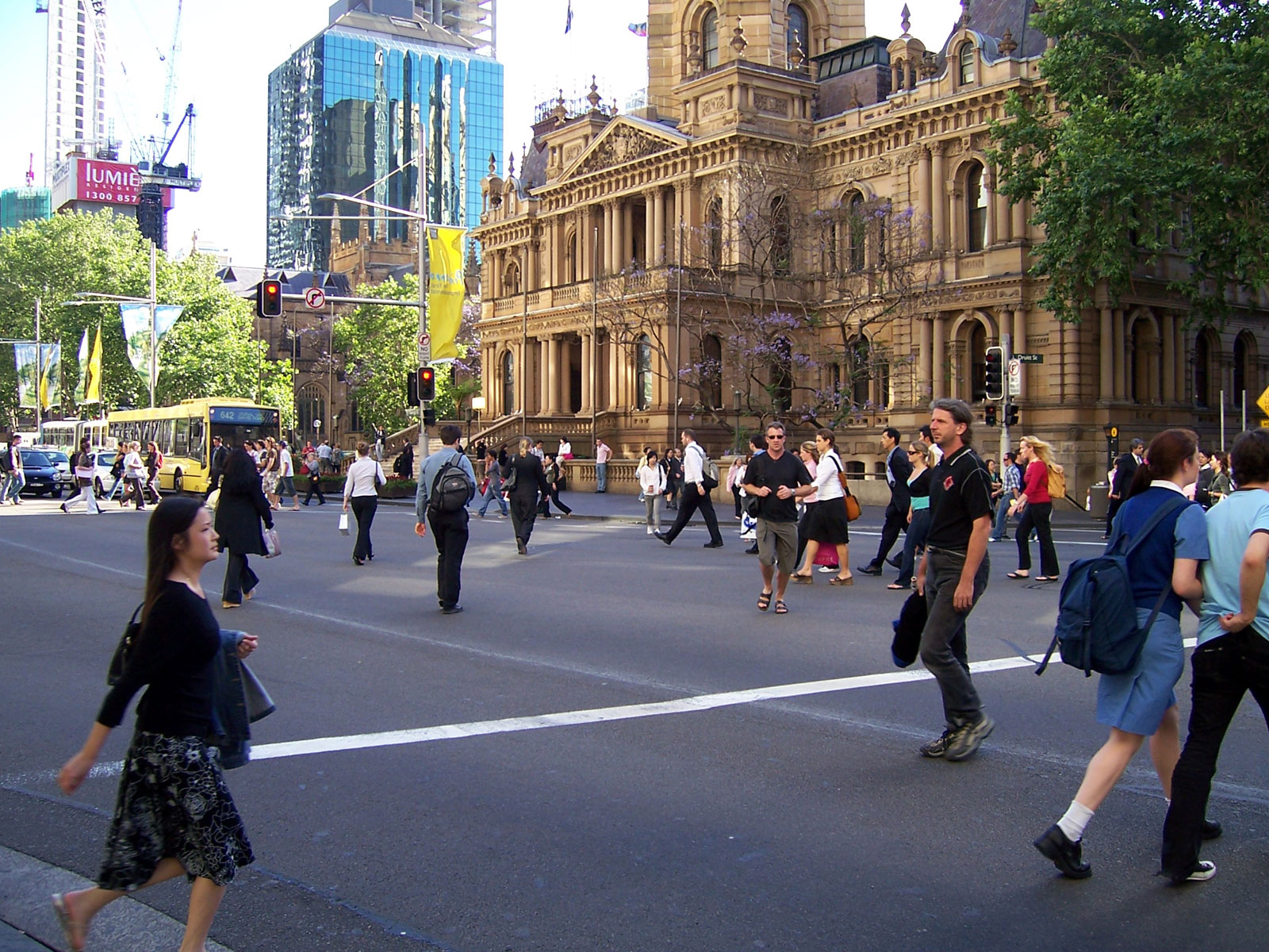 The Sydney Town Hall, with pedestrians crossing George Street, Sydney Taken by Enoch Lau on 17 November 2005. As a courtesy, please let me know if you alter this image or this image description page. Original filename was 100_0611.JPG.